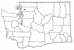 Properly spelled Sedro-Woolley (an extra "l").